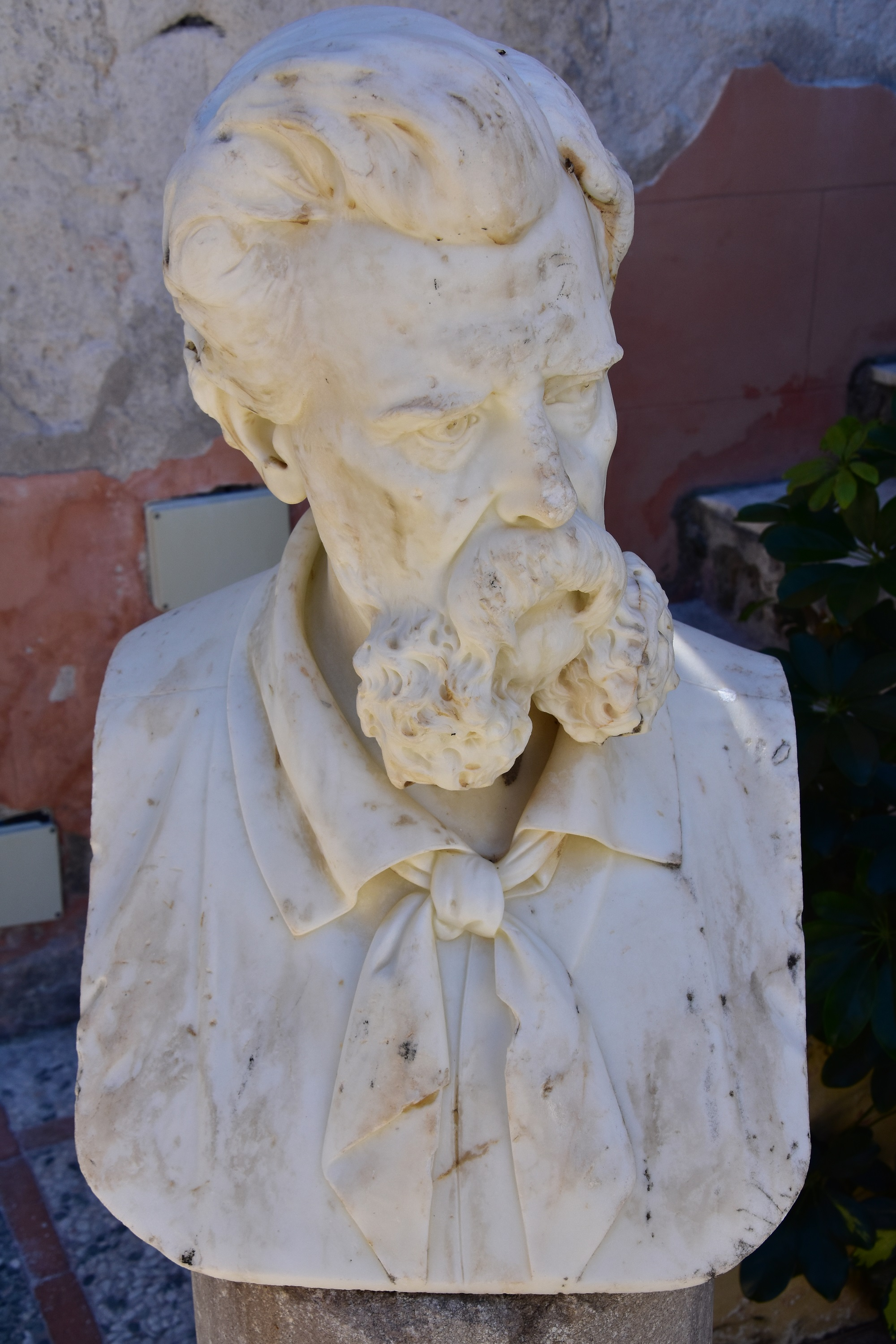 Paolo Florio marble bust (1894) by sculptor Benedetto Civiletti in the courtyard of the Tonnara Florio in Palermo